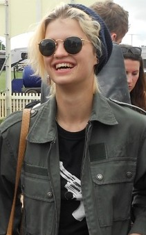 Pixie Geldof (middle) on 25 June 2011